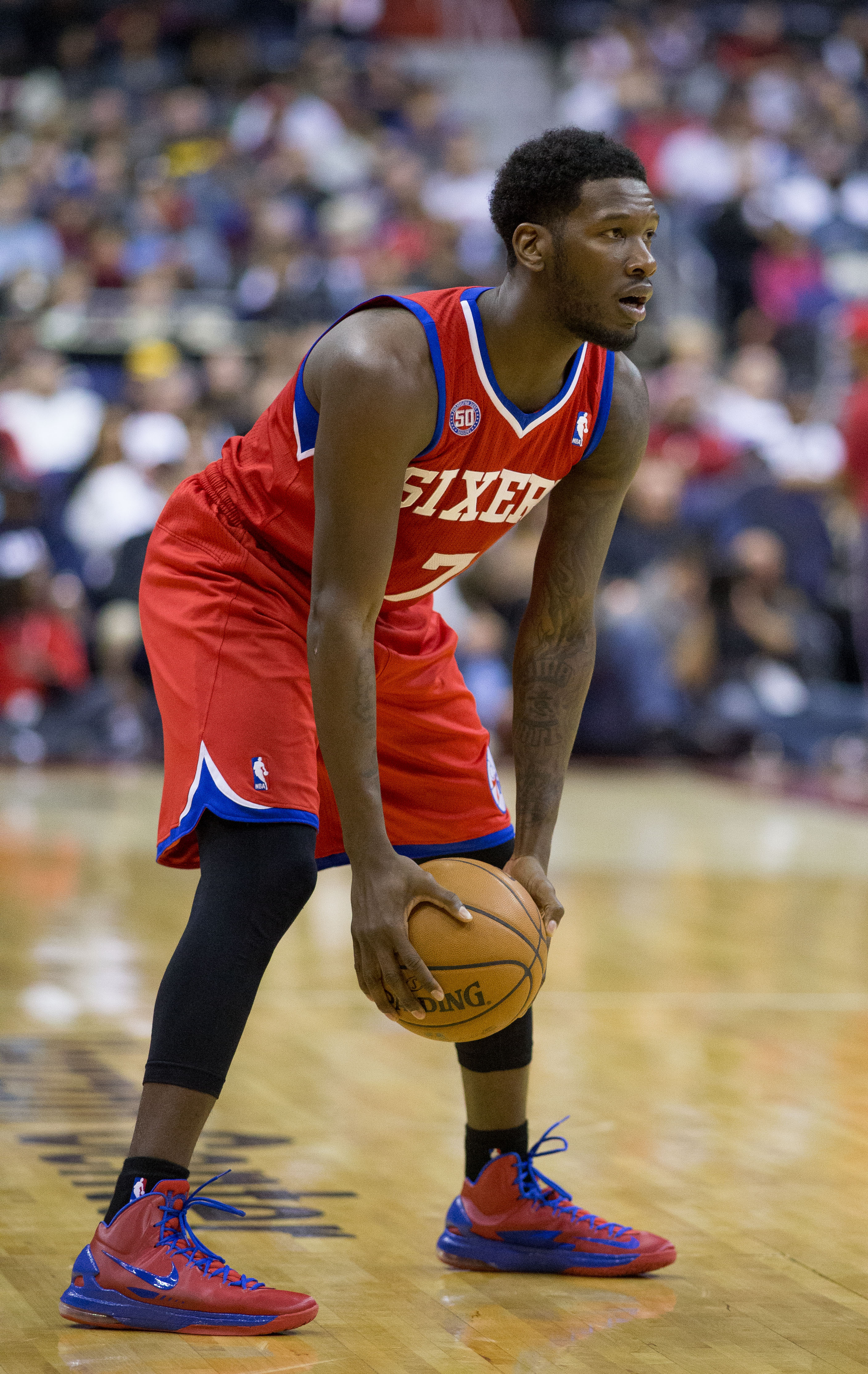 Philadelphia 76ers at Washington Wizards March 3, 2013